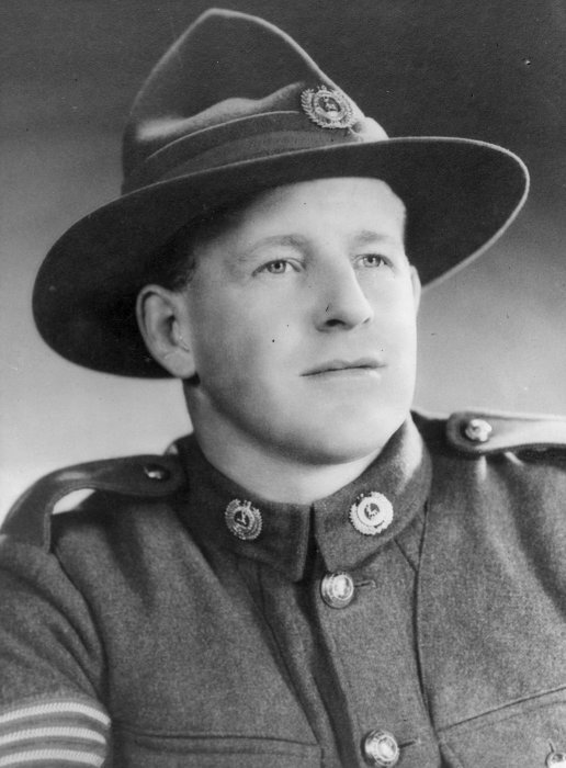 Studio photograph of Clive Hulme VC; first published in Auckland Star 16 Oct 1941